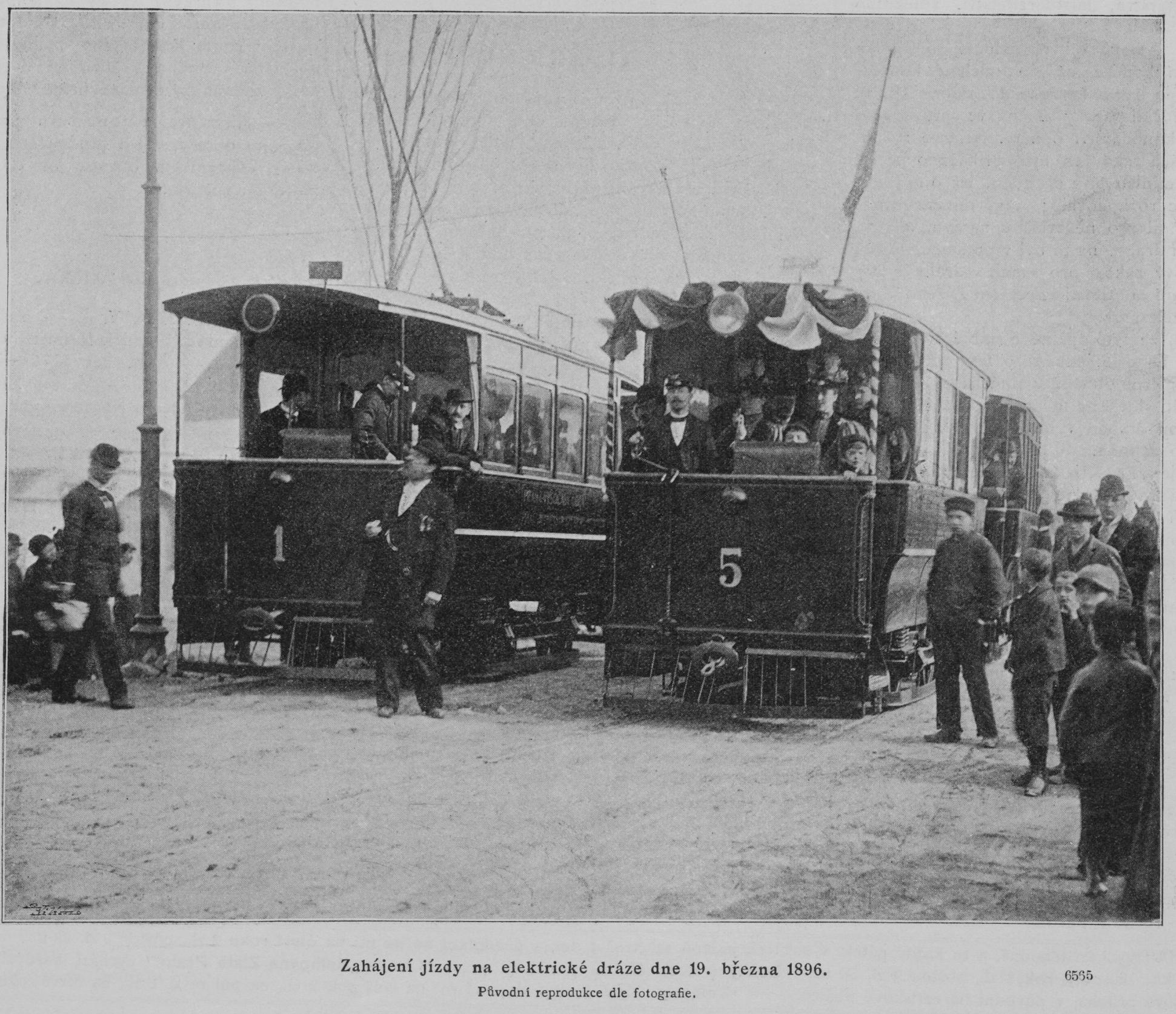 Opening of electric tramline from Karlín to Vysočany (then just outside Prague, now within that city) on March 19, 1896